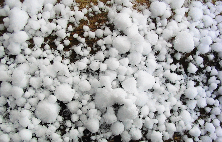 Hail